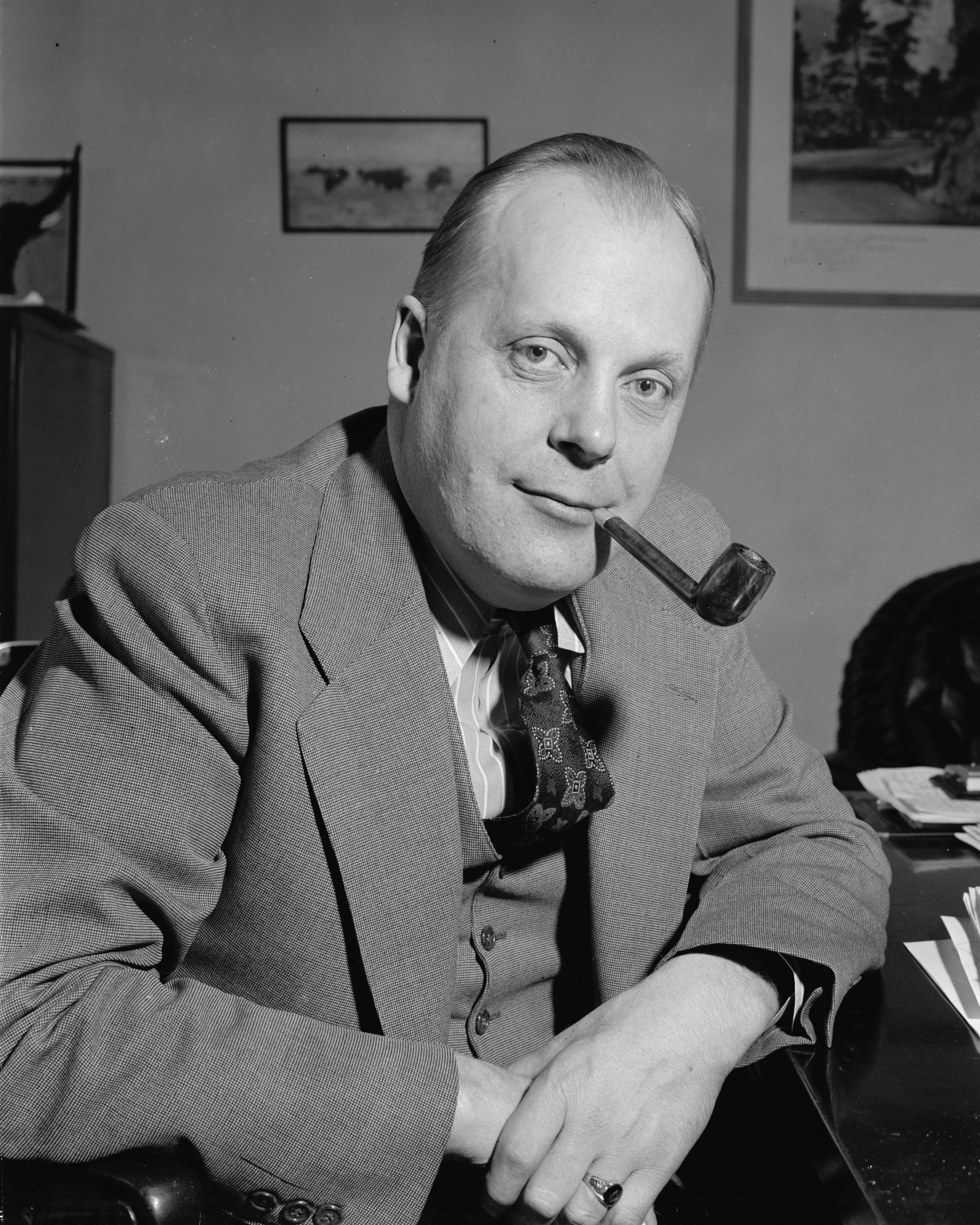 Title: Rep. Karl Mundt, Repub., of S.D., 2-21-40 Abstract/medium: 1 negative : glass ; 4 x 5 in. or smaller